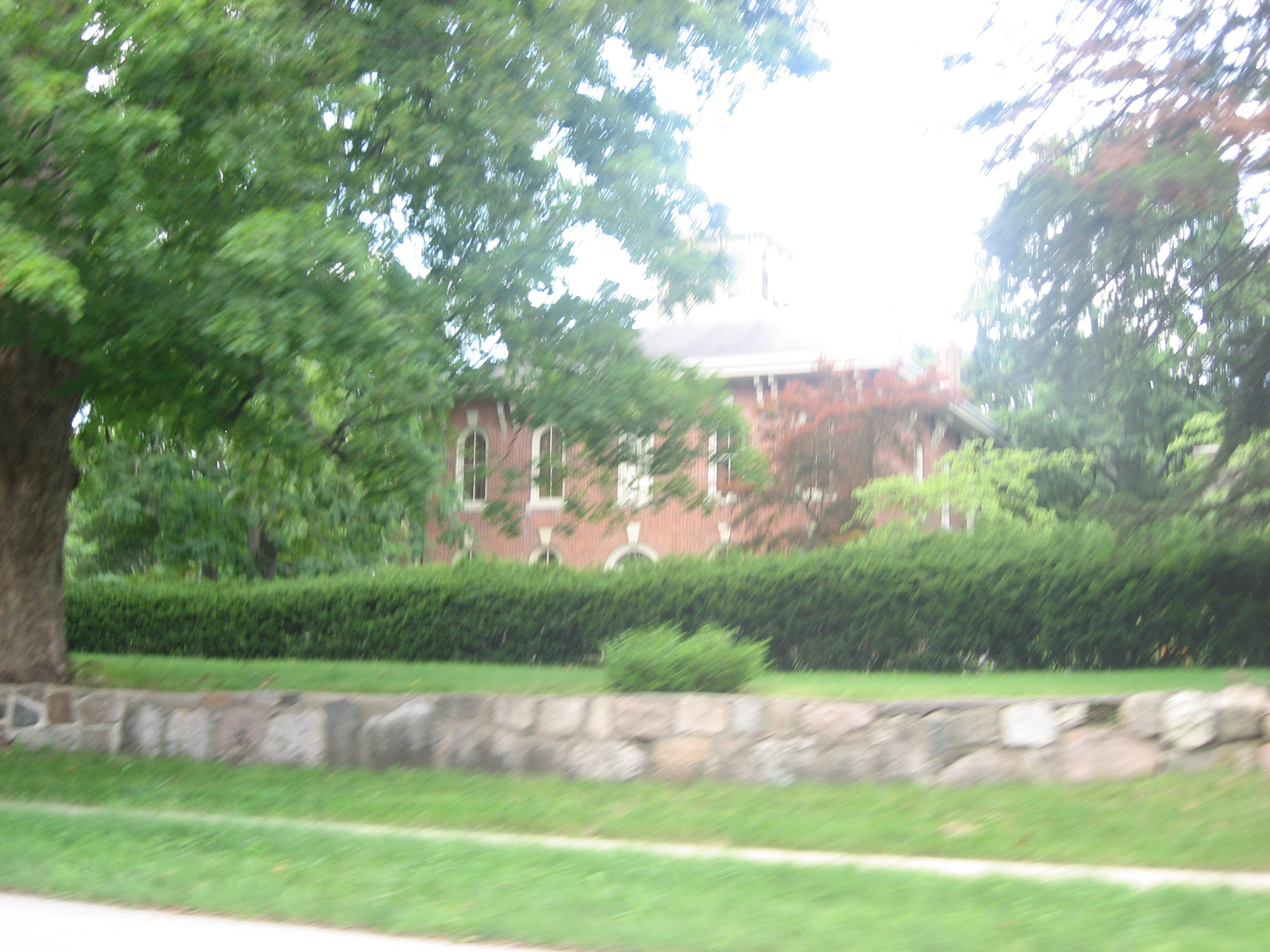 Roadside view of the Solomon Fowler Mansion, located at 11505 W. Vistula Street (State Road 120) in Bristol, Indiana, United States. Built in 1868, it is listed on the National Register of Historic Places.